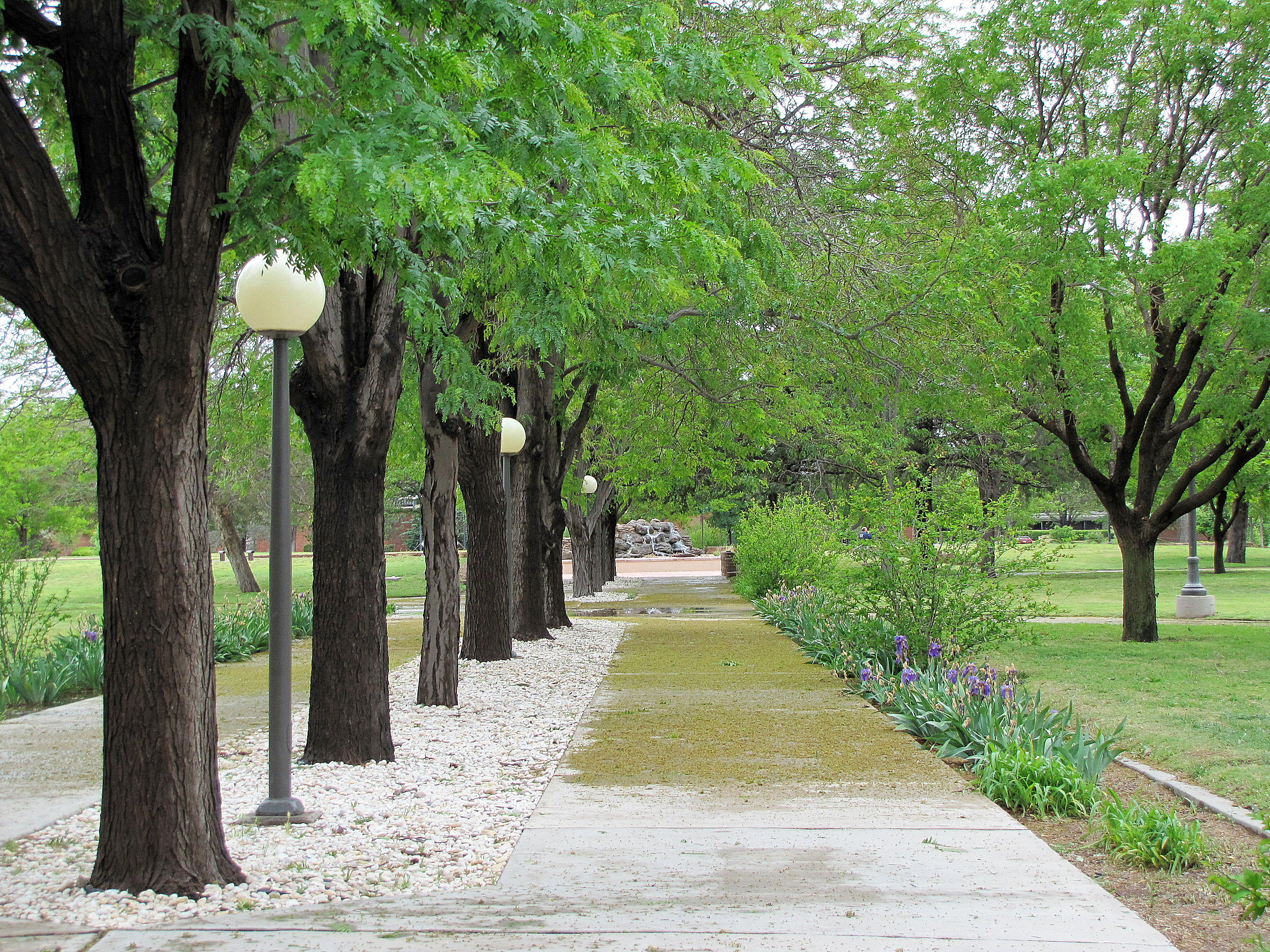 Walkway outside Golden Library at Eastern New Mexico University